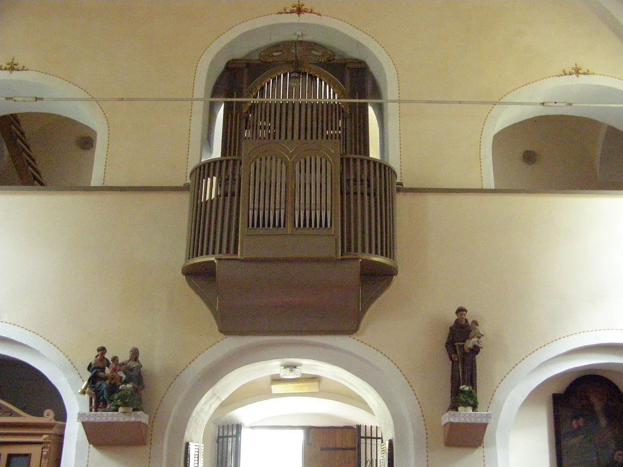 The organ-loft in Church of Alsószölnök